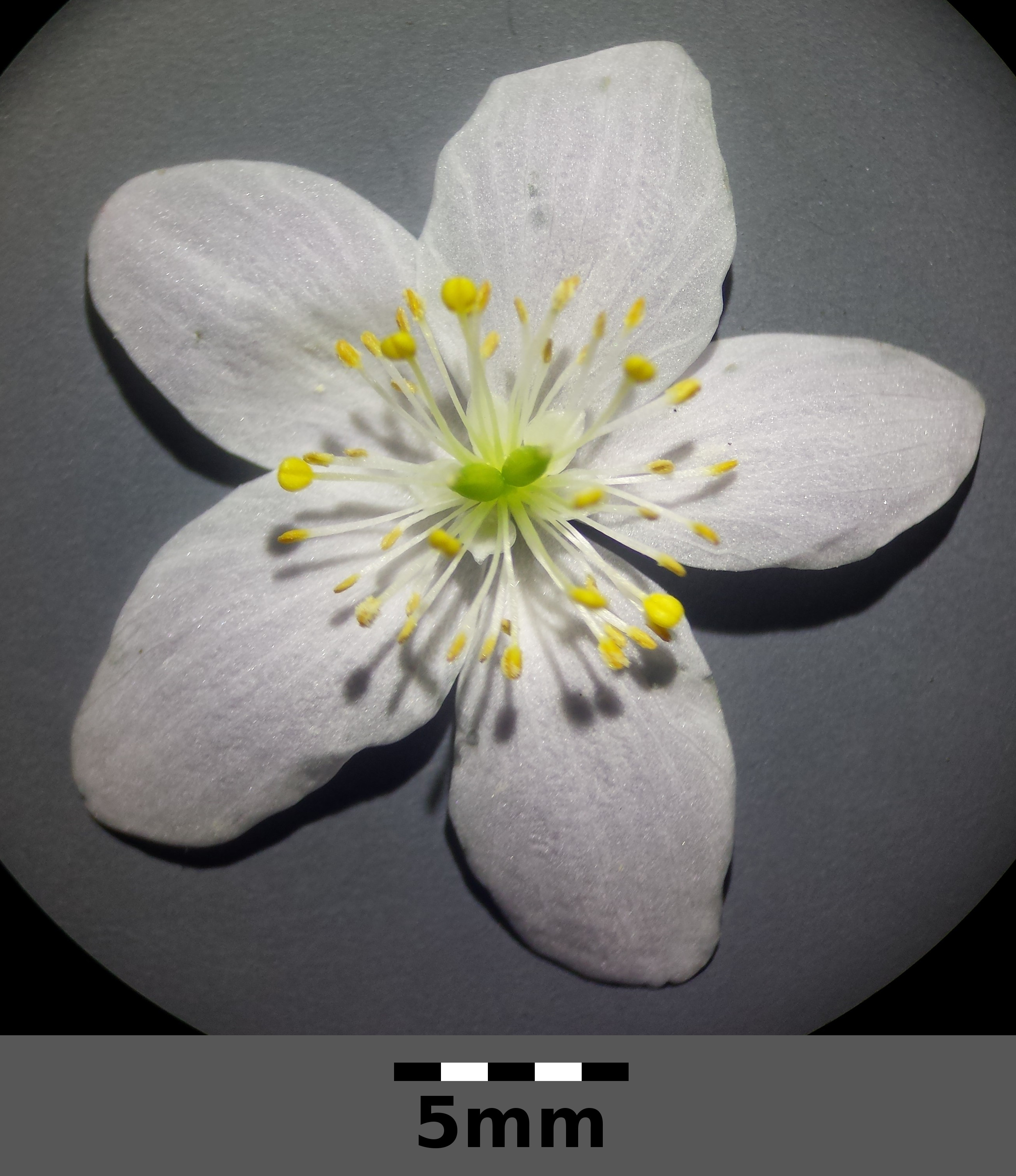 Flower with nectar leaves Taxonym: Isopyrum thalictroides ss Fischer et al. EfÖLS 2008 ISBN 978-3-85474-187-9 Location: Rohrwald, district Korneuburg, Lower Austria - ca. 250 m a.s.l. Habitat: Carpinion betuli